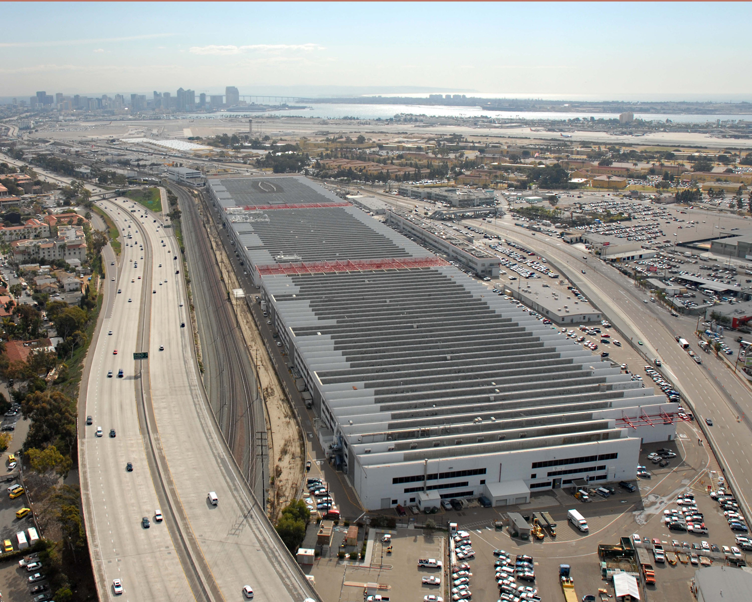 SAN DIEGO (June 24, 2010) An aerial view of the Space and Naval Warfare Systems Command (SPAWAR) Headquarters in San Diego. SPAWAR is responsible for serving as the Navy's technical lead for Command, Control, Communications, Computers, Intelligence, Surveillance and Reconnaissance (C4ISR), providing the hardware and software to connect Sailors at sea, on land and in the air. (U.S. Navy photo/Released)